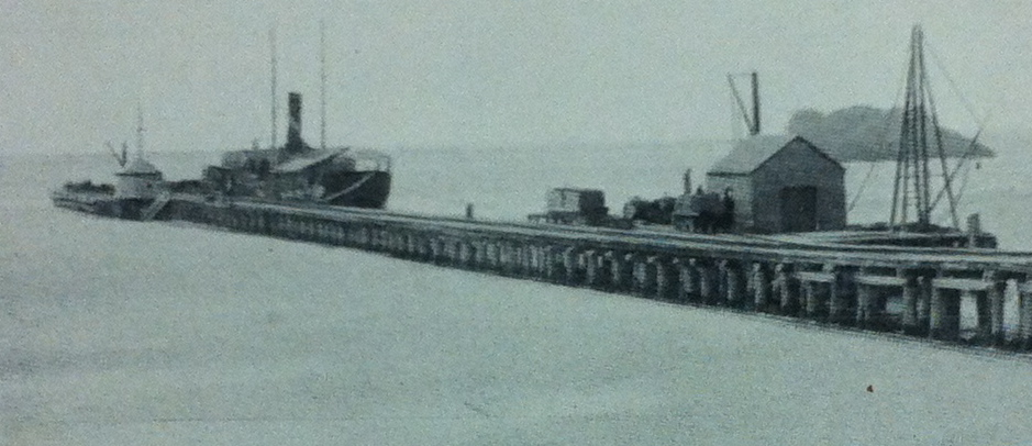 Hamelin Bay Jetty in 1899 from Karri & jarrah timbers. London M.C. Davies' Karri and Jarrah Co. Ltd. Retrieved on 15 December 2016.